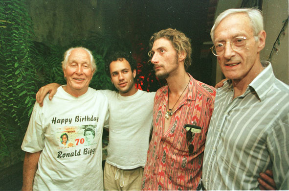 from The Guardian: "Fathers and sons: Ronnie Biggs celebrates his 70th birthday with Great Train robbery mastermind Bruce Reynolds (far right), Ronnie's son Michael (second left) and Bruce's son Nick (third left)"